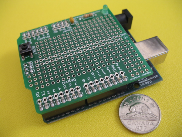 Vancircuit (talk) 15:24, 28 March 2009 (UTC)